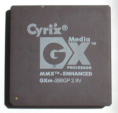 Cyrix_MediaGXm